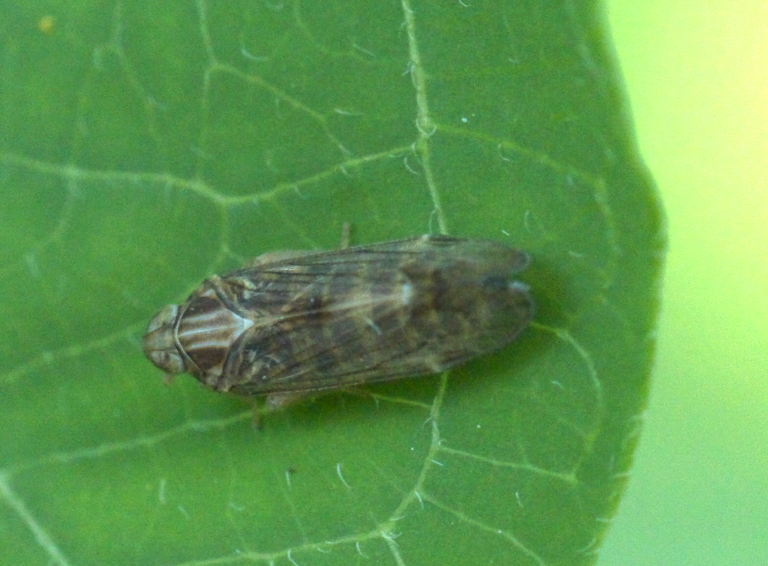 Haplaxius, Family: Cixiid Planthoppers, ID Confidence: 98